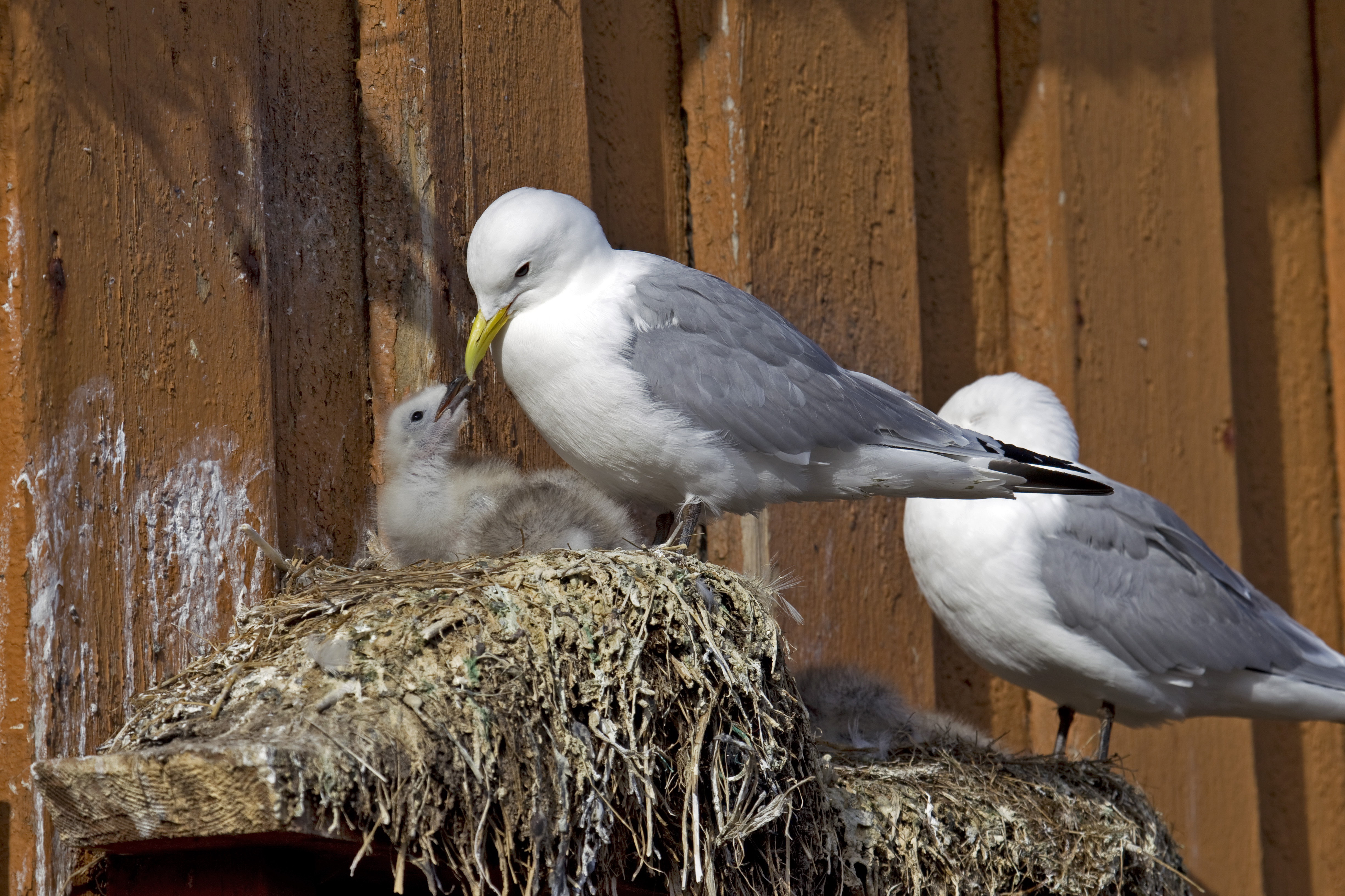 Black-legged Kittiwake